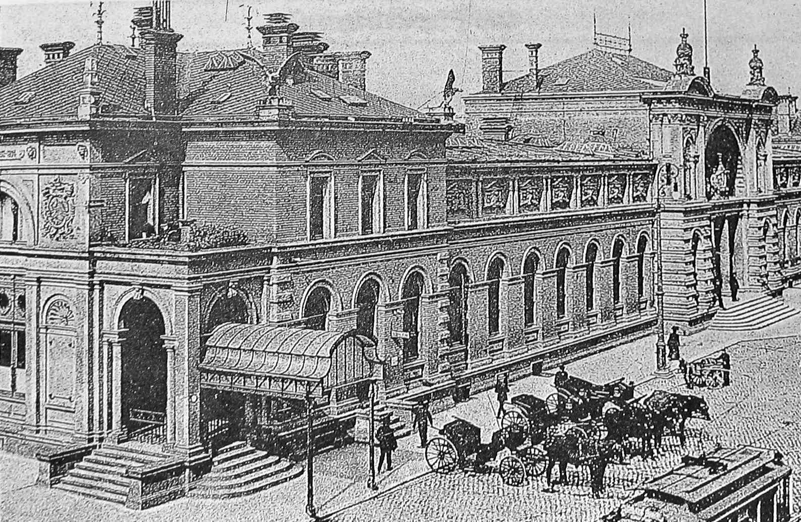 Train station Bonn about 1900